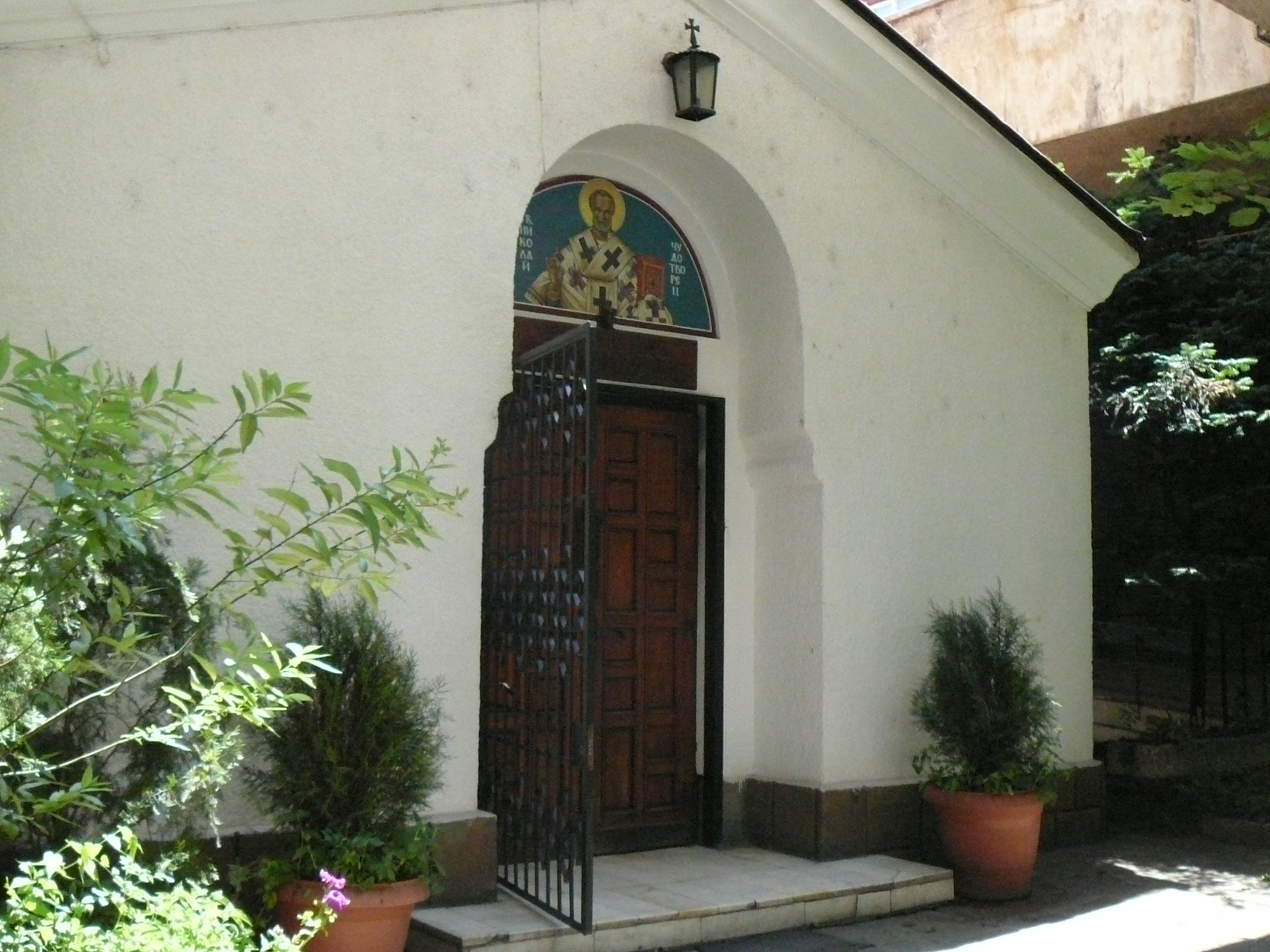 St Nicholas of Myra church in Sofia,Bulgaria